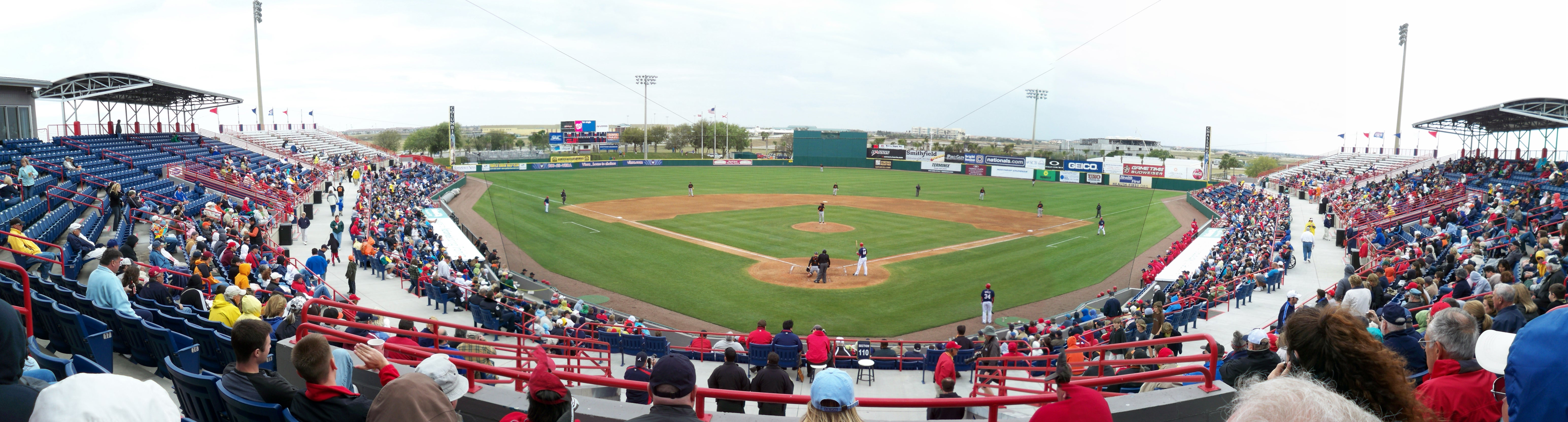 Space Coast Stadium - Viera, FL (Nationals vs. Orioles - 3/01/09)